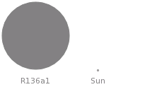 A size comparison between the most massive star known, R136a1, and our sun. Other information no